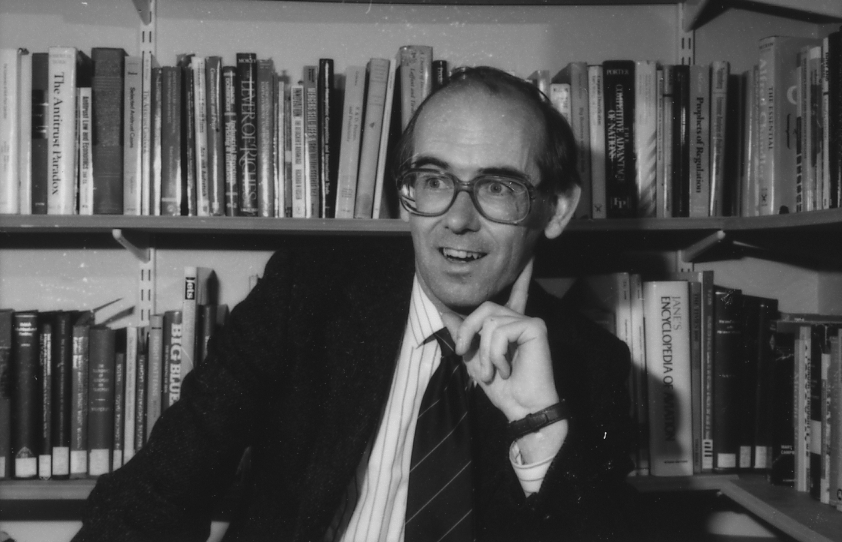 Sir John Hicks Professor of Economics, joined LSE in 1977. IMAGELIBRARY/1009 Persistent URL